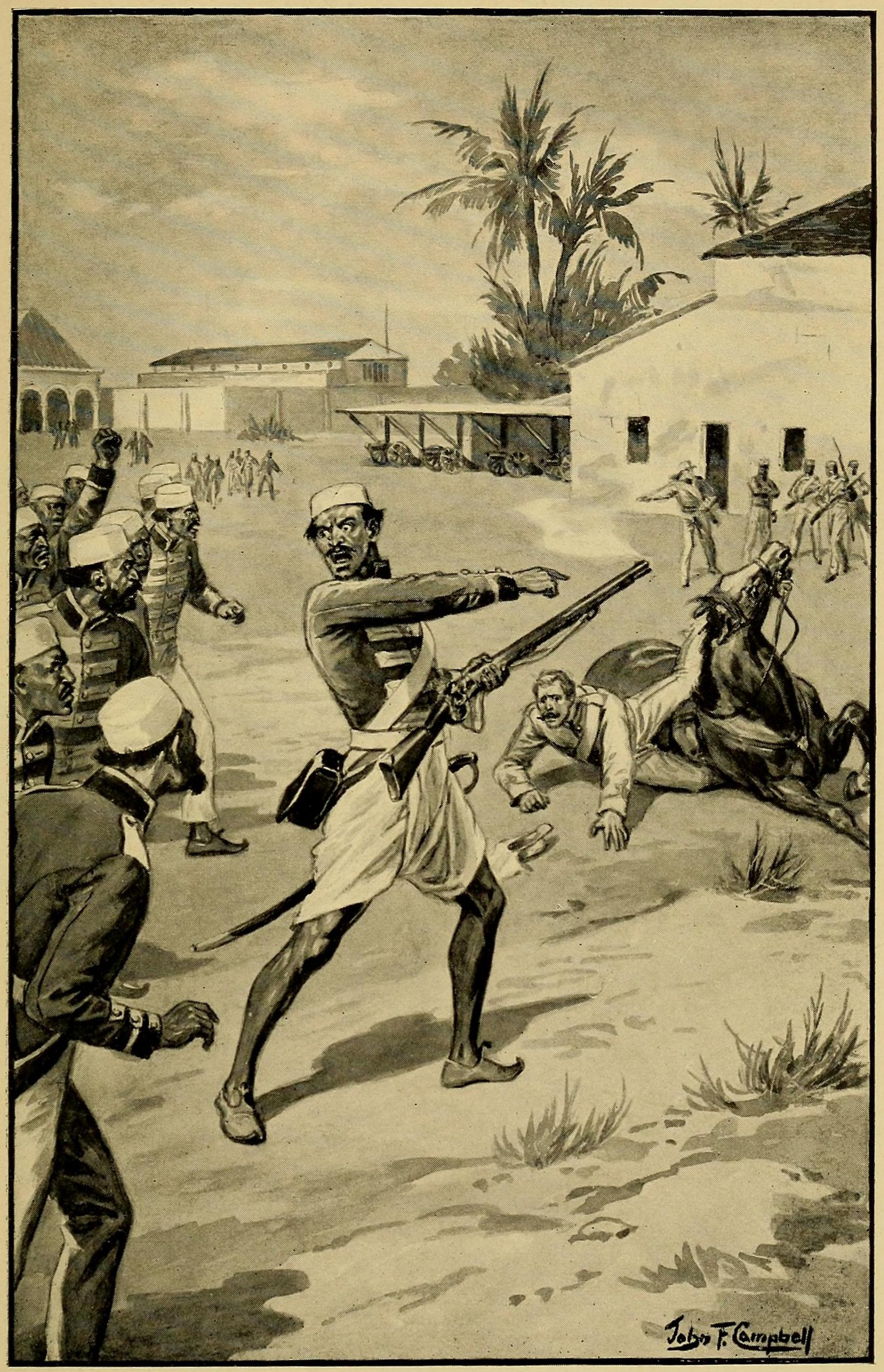 Heroes of the Indian mutiny; stories of heroic deeds by Gilliat, Edward, 1841-1915 Publication date 1914 Publisher Philadelphia, J. B. Lippincott company; London, Seeley, Service & co., ld. Collection library_of_congress; americana Digitizing sponsor The Library of Congress Contributor The Library of Congress Language English Call number 5895008 Camera Canon 5D Identifier heroesofindianmu00gill Identifier-ark ark:/13960/t7jq1p012 Identifier-bib 00009675930 Ocr ABBYY FineReader 8.0 Openlibrary_edition OL24239669M Openlibrary_work OL15222791W Page-progression lr Pages 382 Possible copyright status The Library of Congress is unaware of any copyright restrictions for this item. Ppi 400 Scandate 20100604151749 Scanner Scanningcenter capitolhill Full catalog record MARCXML